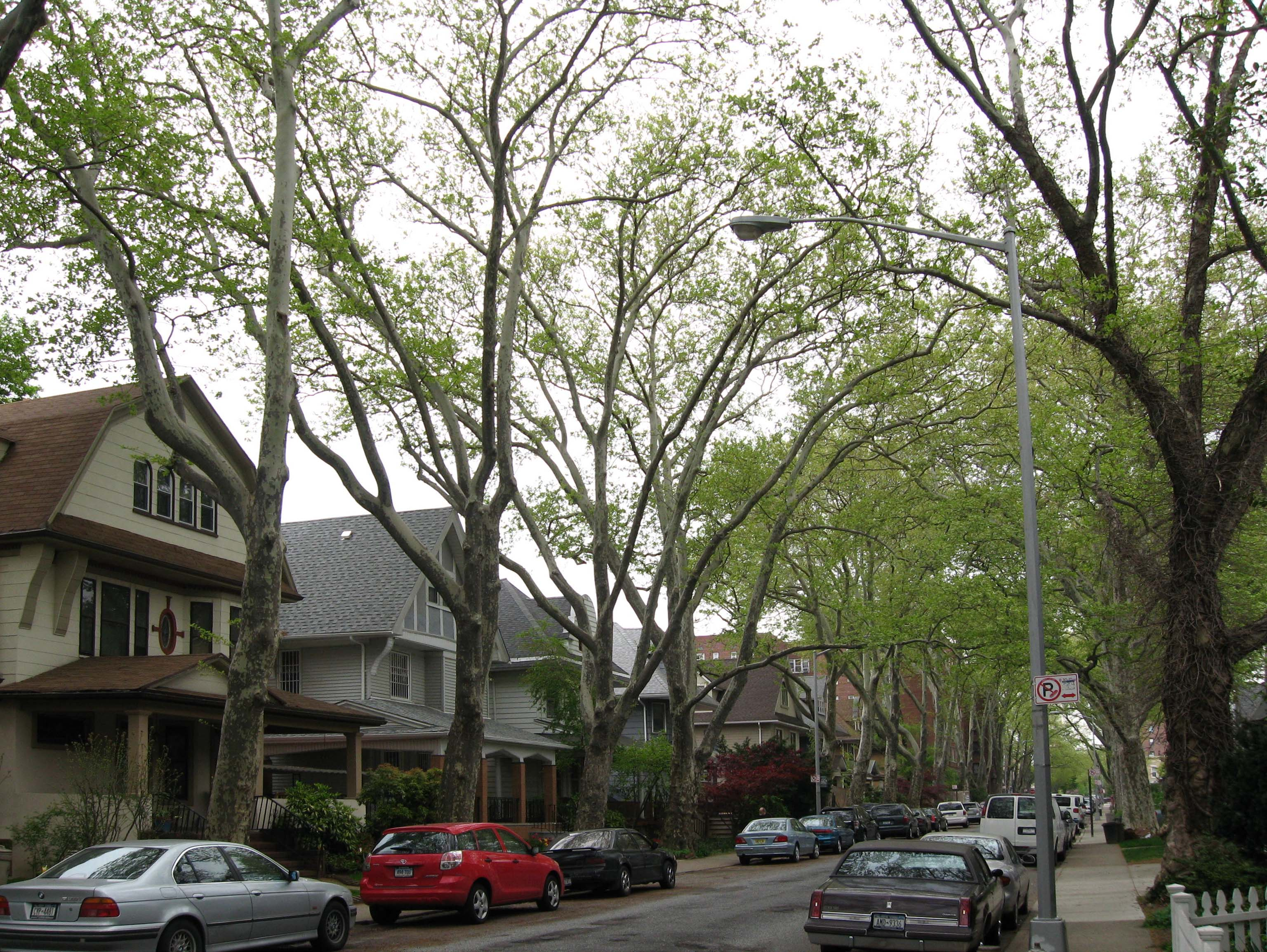 Victorian Flatbush, looking north in springtime from Ditmas Avenue at a treelined street, a couple blocks east of Coney Island Avenue.